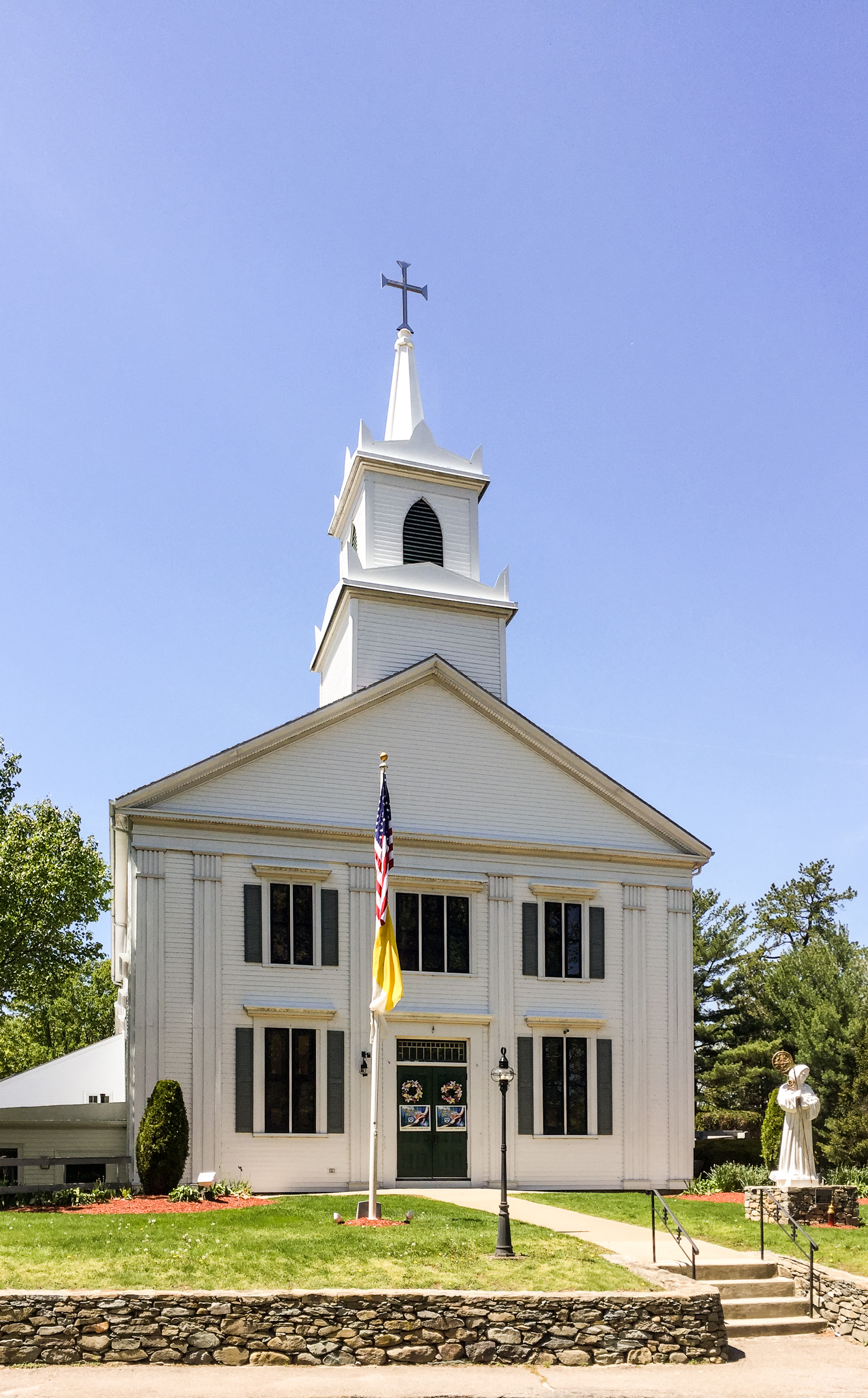 St. Bernard's Catholic Church, Assonet, Massachusetts. Architects: Maginnis and Walsh of Boston. Construction began in July of 1937. Dedicated February 6, 1938.